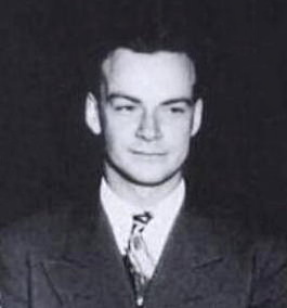 Richard Feynman (center) and Robert Oppenheimer (to viewer's right of Feynman) at Los Alamos National Laboratory during the Manhattan Project. Original source from